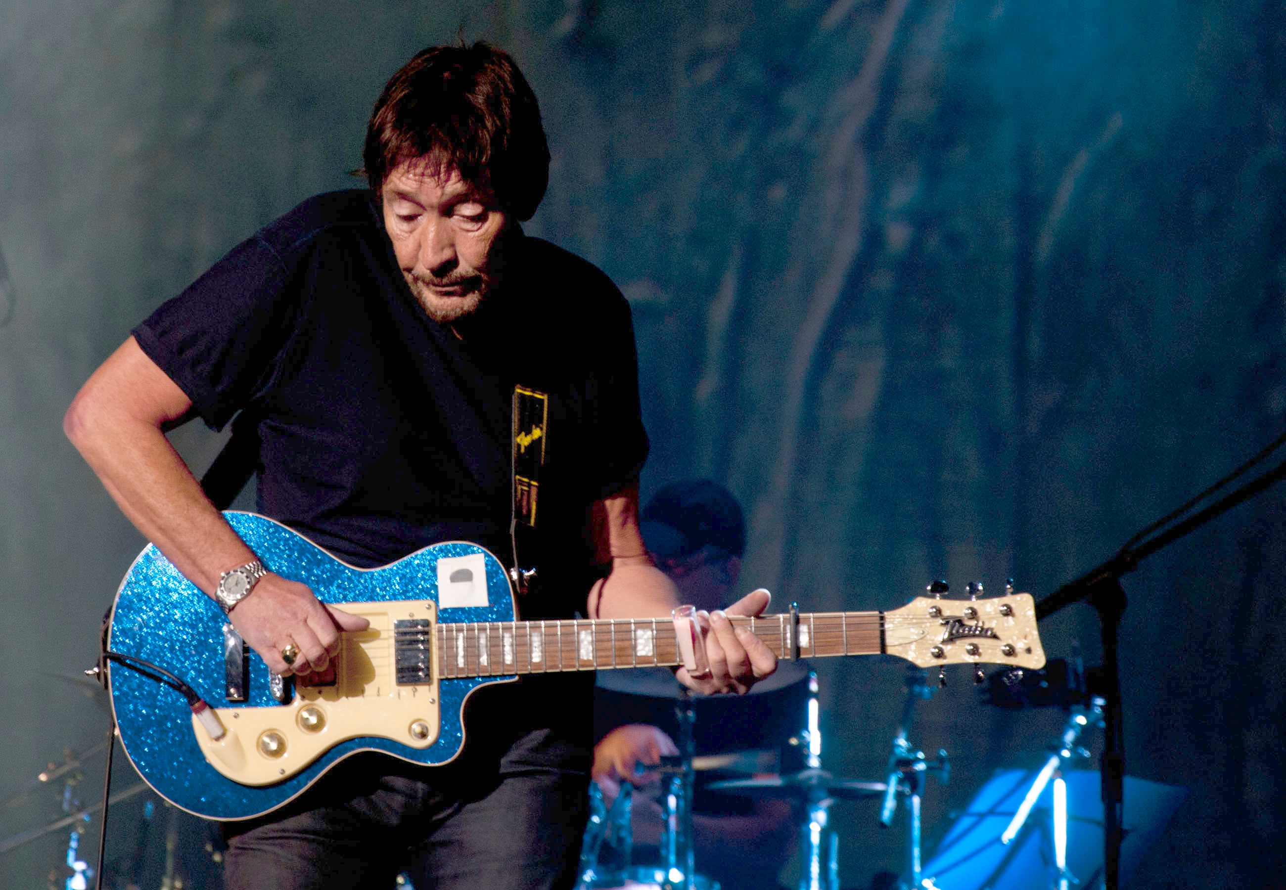 Chris Rea, Concert at Sala Kongresowa, Warsaw, Poland on February 5, 2012 during Santo Spirito Tour